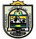 Coat of arms of the municipality of Loreto, BCS